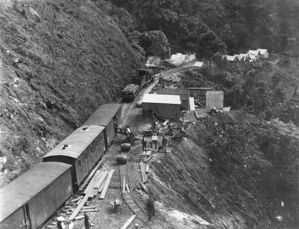 Aftermath of a landslide on the Cairns Railway, Cairns Range, 1911